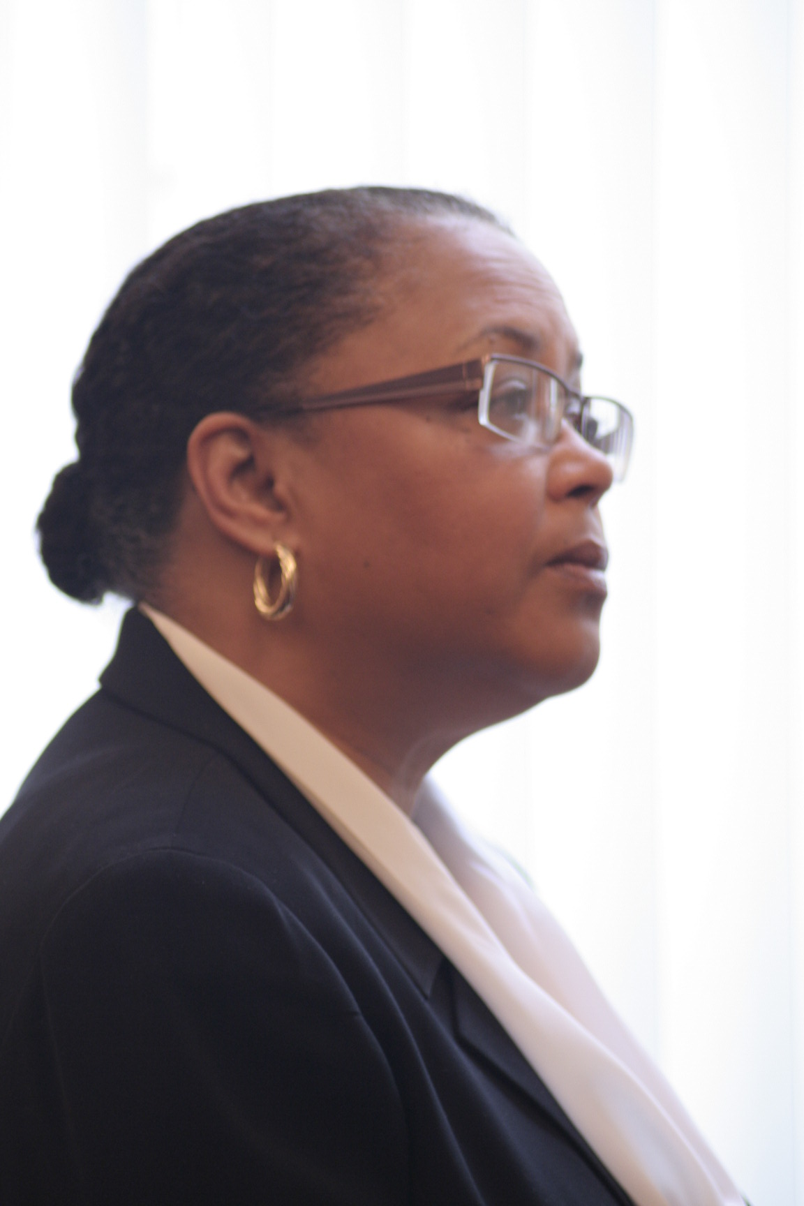 Chicago 6th Ward Alderman Freddrenna M. Lyle at the monthly City Council Meeting 0n Jan 13, 2011